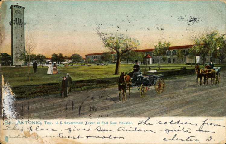 United States Government Tower, Fort Sam Houston